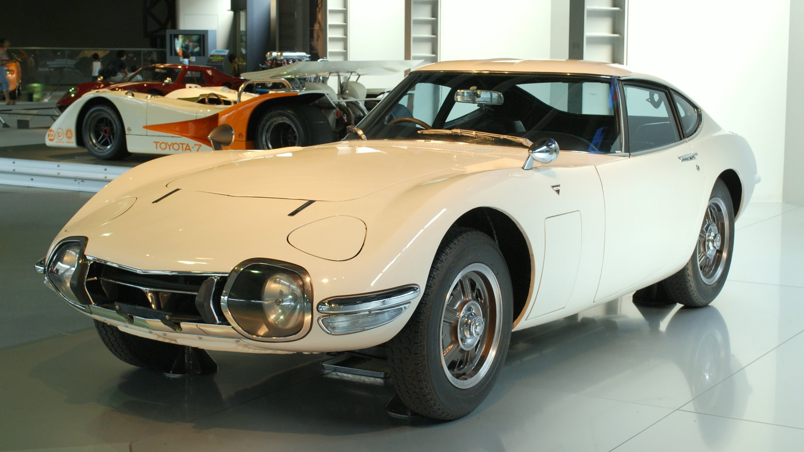 Toyota 2000GT Model MF10 (1967/5 - 1969/8)